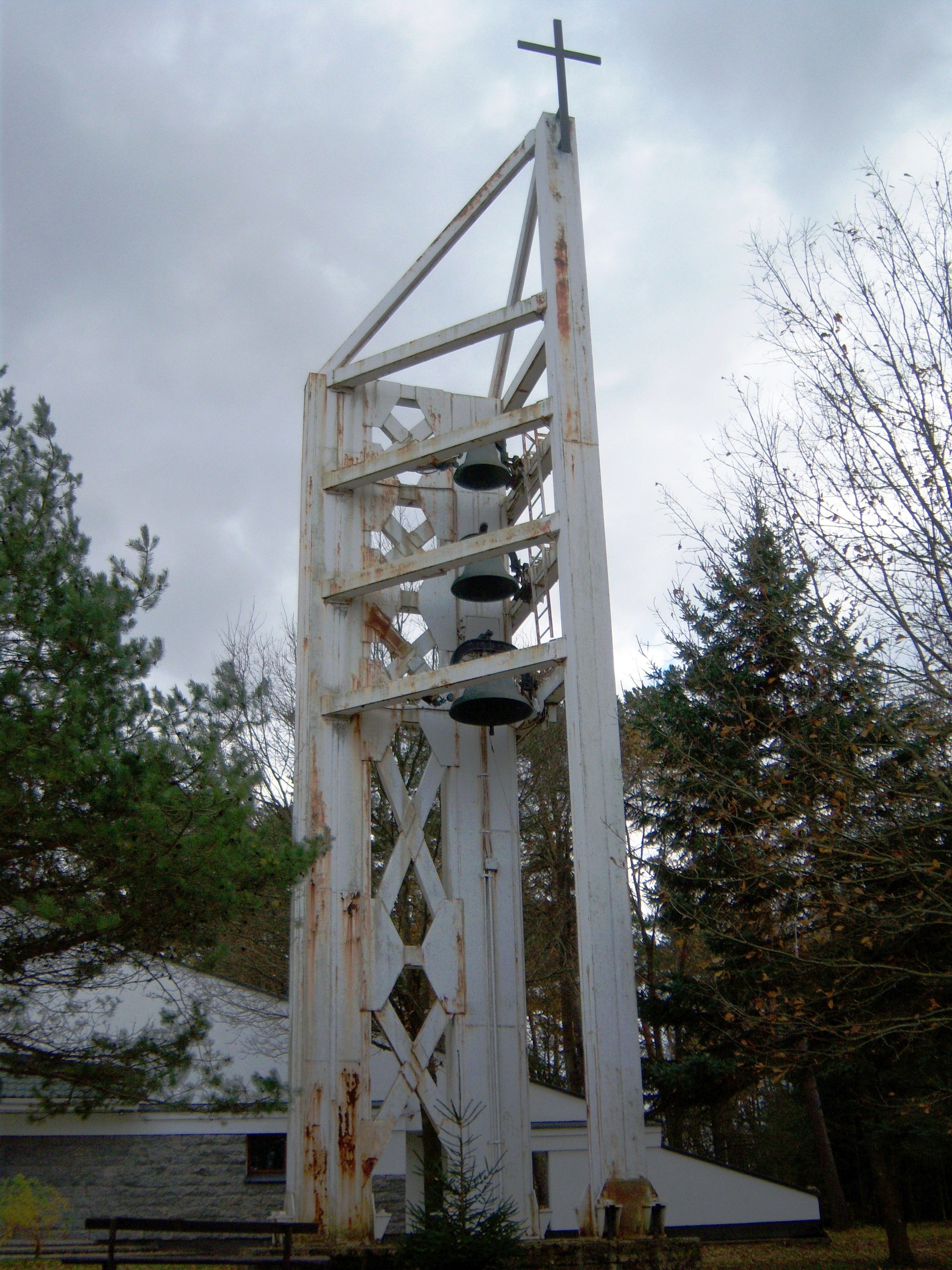 Church bell tower in Berčiūnai, Panevėžys District, Lithuania